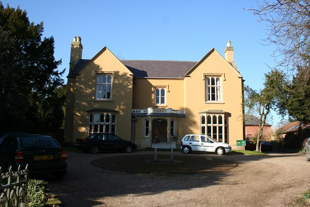 Sacrista Prebend A Tudor-gothic front to a range of rooms built 1774-1798